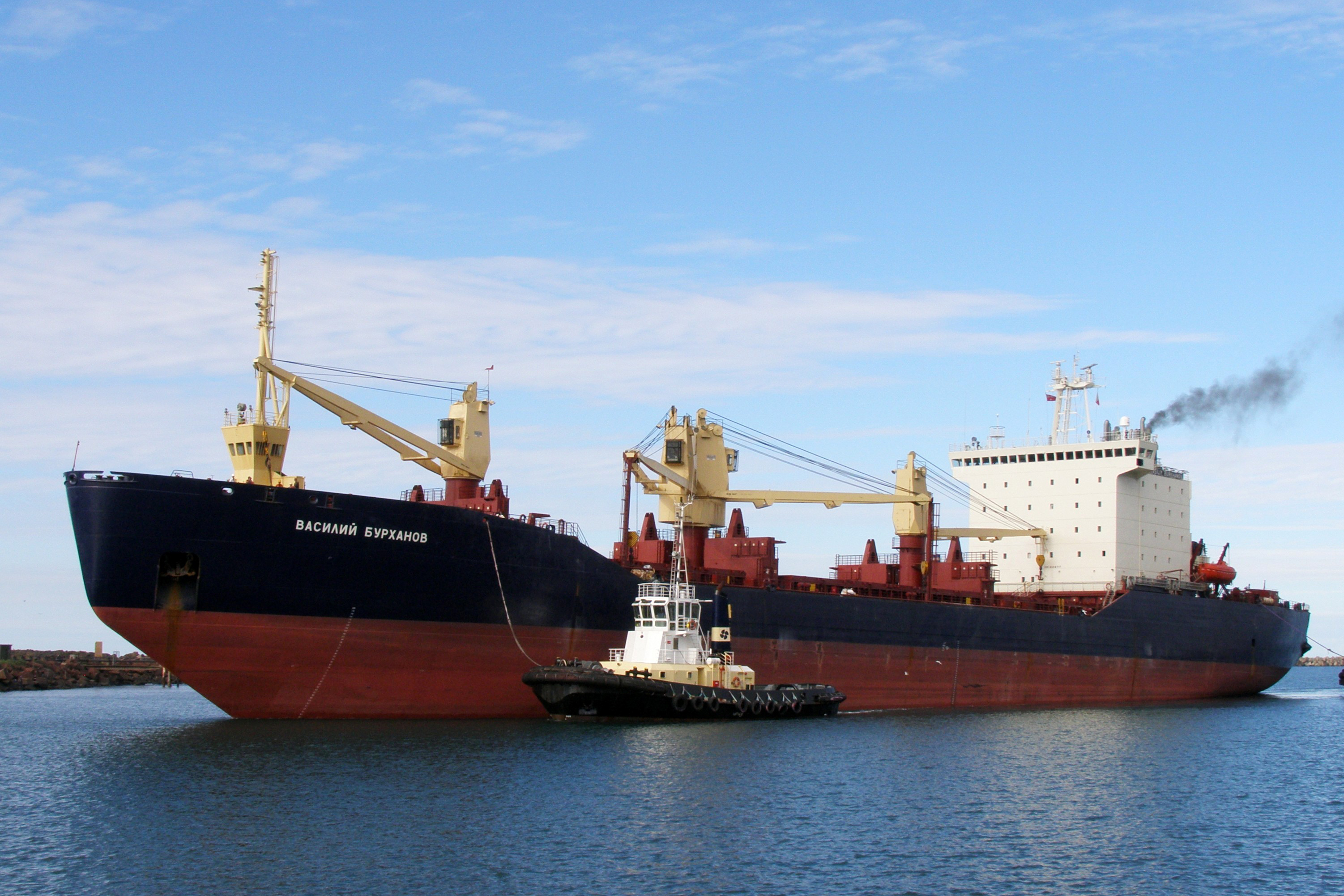 SA-15 class arctic cargo ship Vasiliy Burkhanov (IMO 8406717) shifting berths Port Kembla.